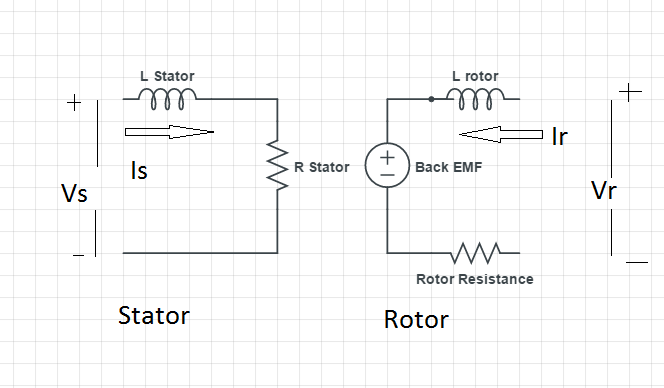 DC Motor consisting of two parts rotor and stator.